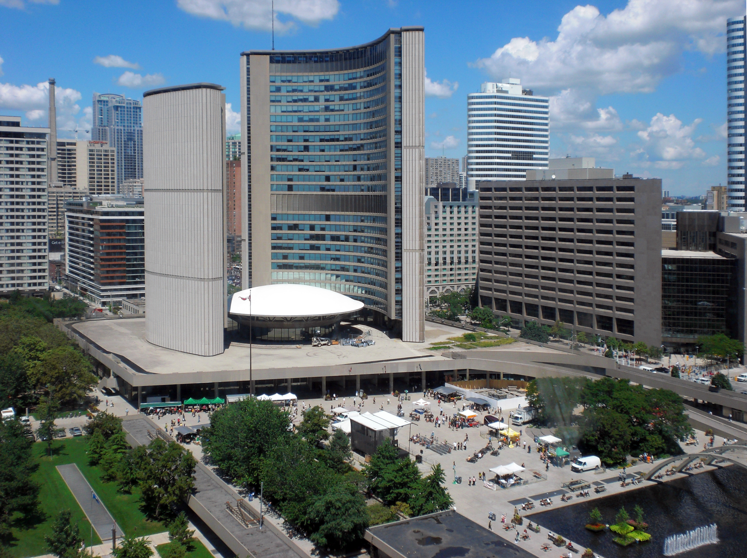 Toronto City Hall from Sheraton hotel room.